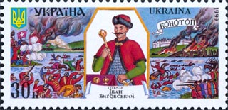 Stamp of Ukraine